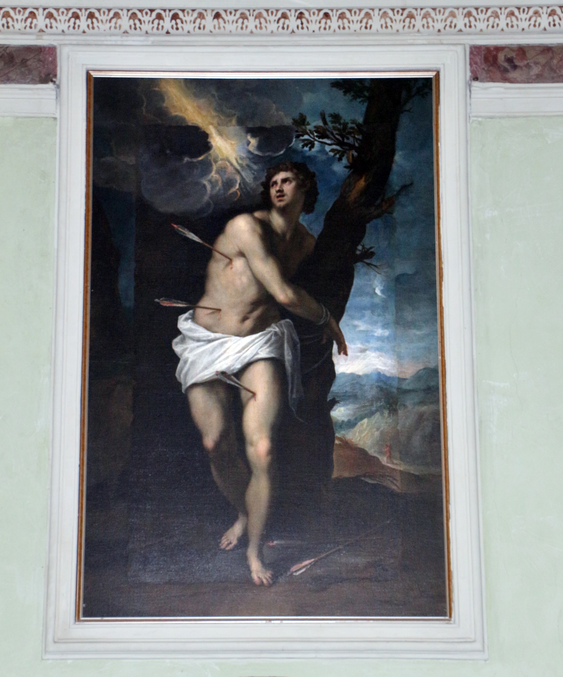 San Nicolò (Zanica) - Interior